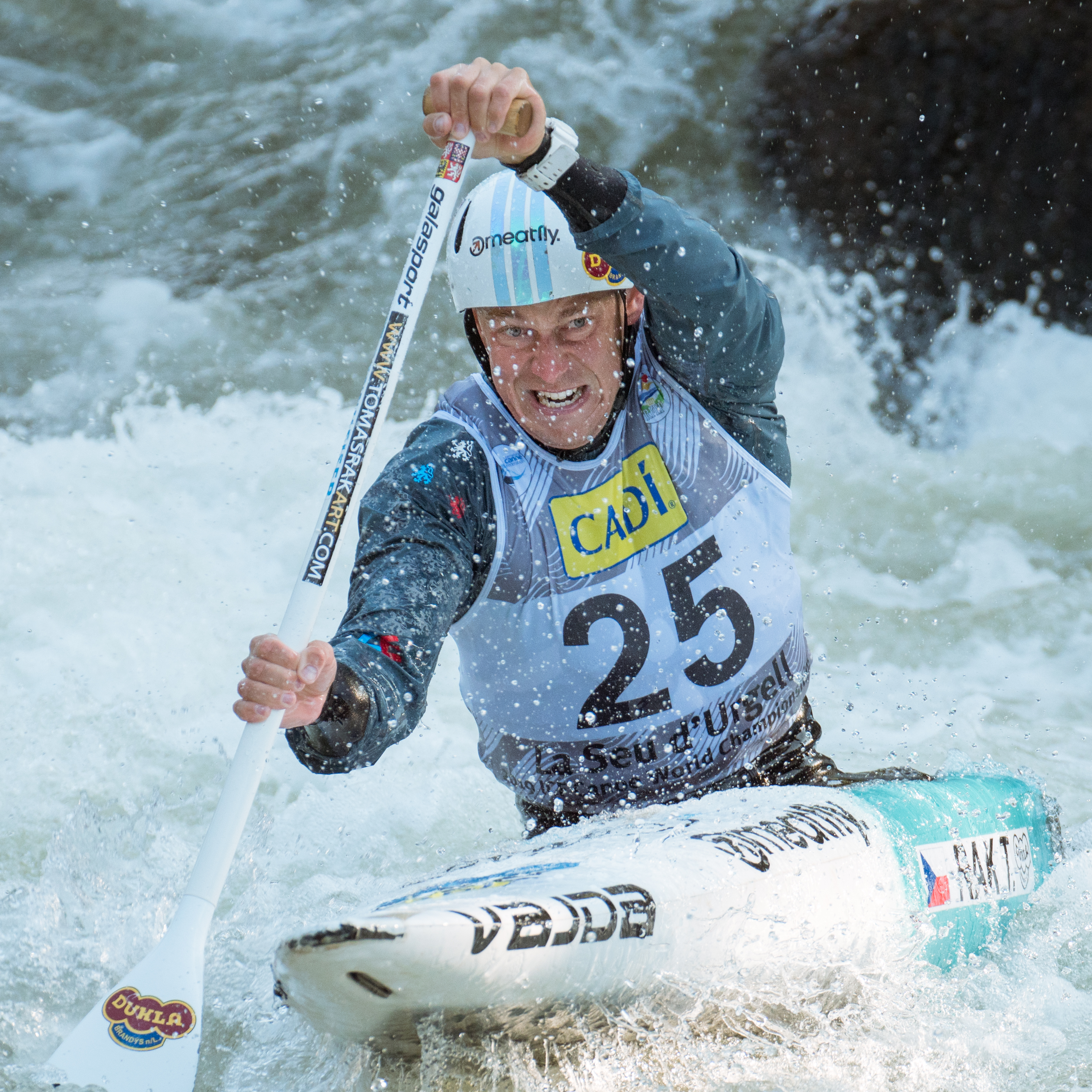 Tomáš Rak during the 2019 Canoe Slalom World Championships in La Seu d'Urgell, Spain.